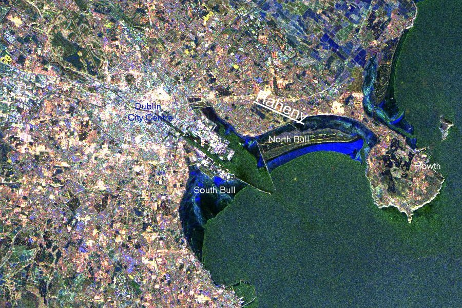 NASA photo of Dublin city and near environs, with minor annotations